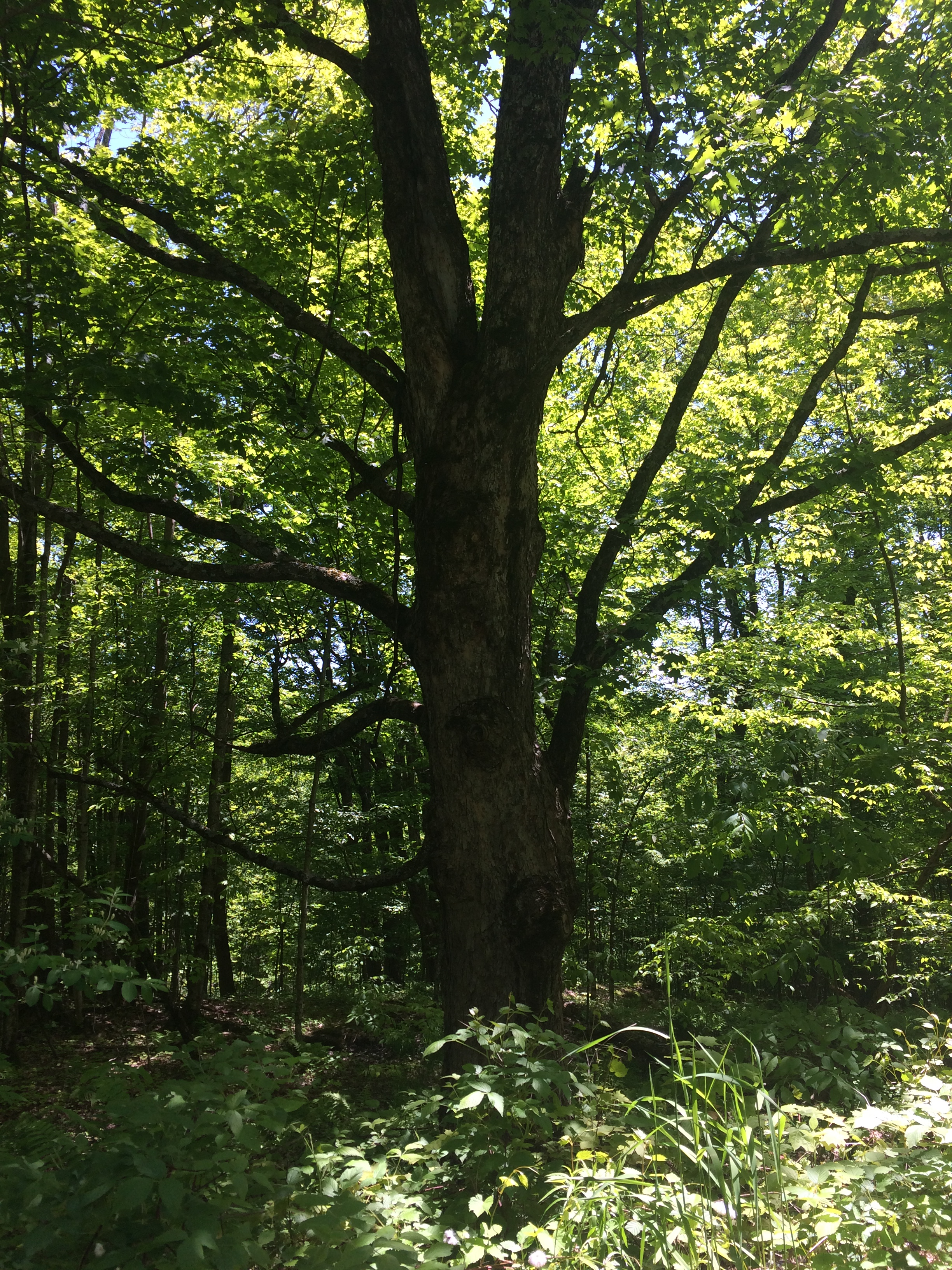 Undergrowth of the canadian boreal forest.